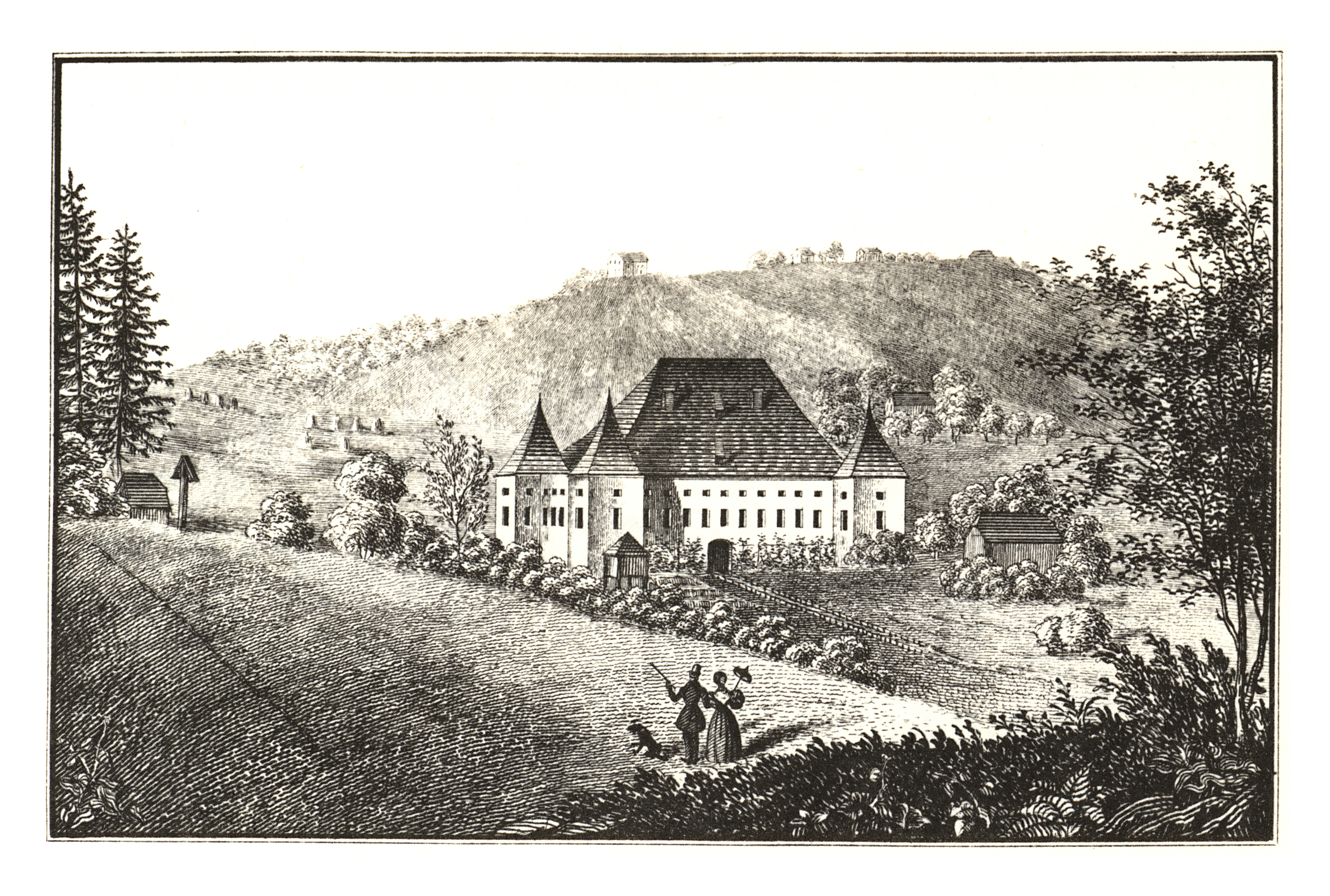 J. F. Kaiser - lithographirte Ansichten der Steyermärkischen Städte, Märkte und Schlösser, Graz 1824-1833 Joseph Franz Kaiser (1786–1859) Alternative names J. F. KaiserDescriptionAustrian printer and editorDate of birth/death 11 March 1786 19 September 1859Location of birth/death Graz (Styria) GrazAuthority control : Q1499963 VIAF: 30629353 ISNI: 0000 0000 3083 0153 LCCN: n87141671 GND: 129880159 NLP: A24960305 WorldCat creator QS:P170,Q1499963 . Scanprojekt Community Projektbudget 2012 This scan or this PDF-file was created within the GLAM-project Bookscanning, supported by Wikimedia Germany and Wikimedia Austria as a part of the community-project to capture books, documents and pictures which are not eligible to copyright or for which the copyright has expired. This document describes or depicts an object which is located in Austria today. Send requests for uncompressed scans to Hubertl. This work is in the public domain in its country of origin and other countries and areas where the copyright term is the author's life plus 100 years or fewer. You must also include a United States public domain tag to indicate why this work is in the public domain in the United States. This file has been identified as being free of known restrictions under copyright law, including all related and neighboring rights.